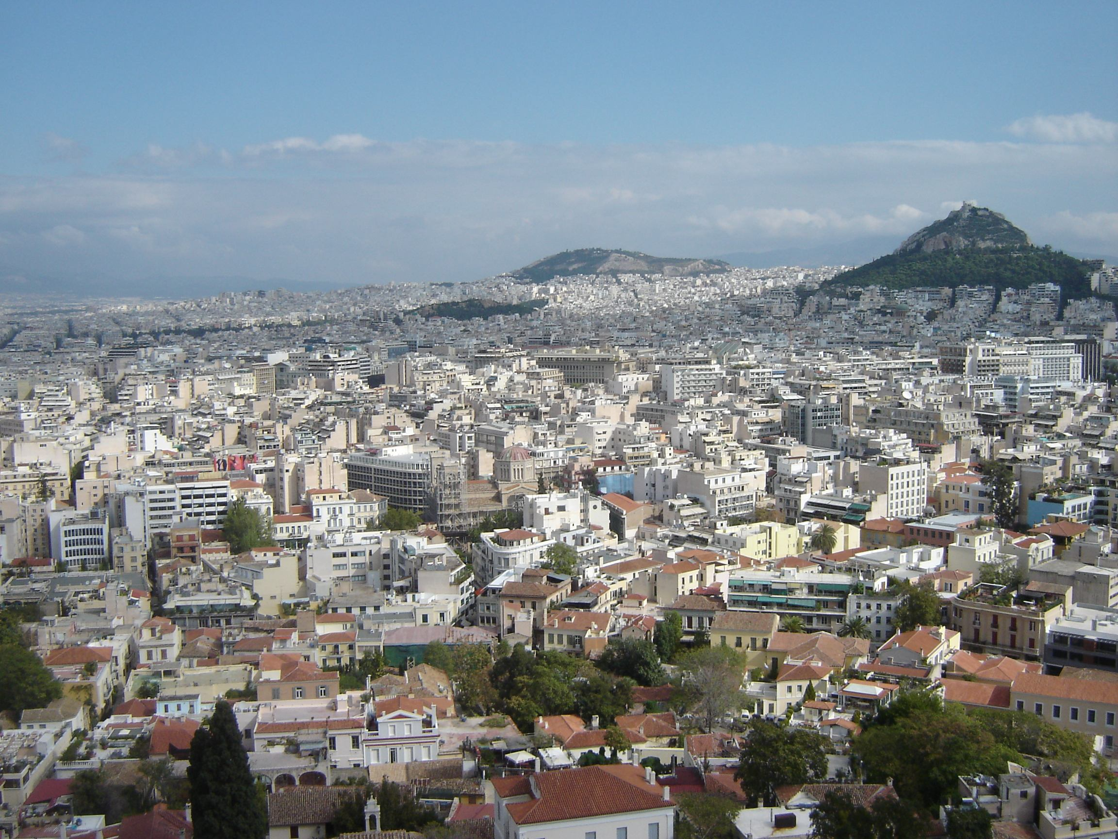 View of Athens, Greece